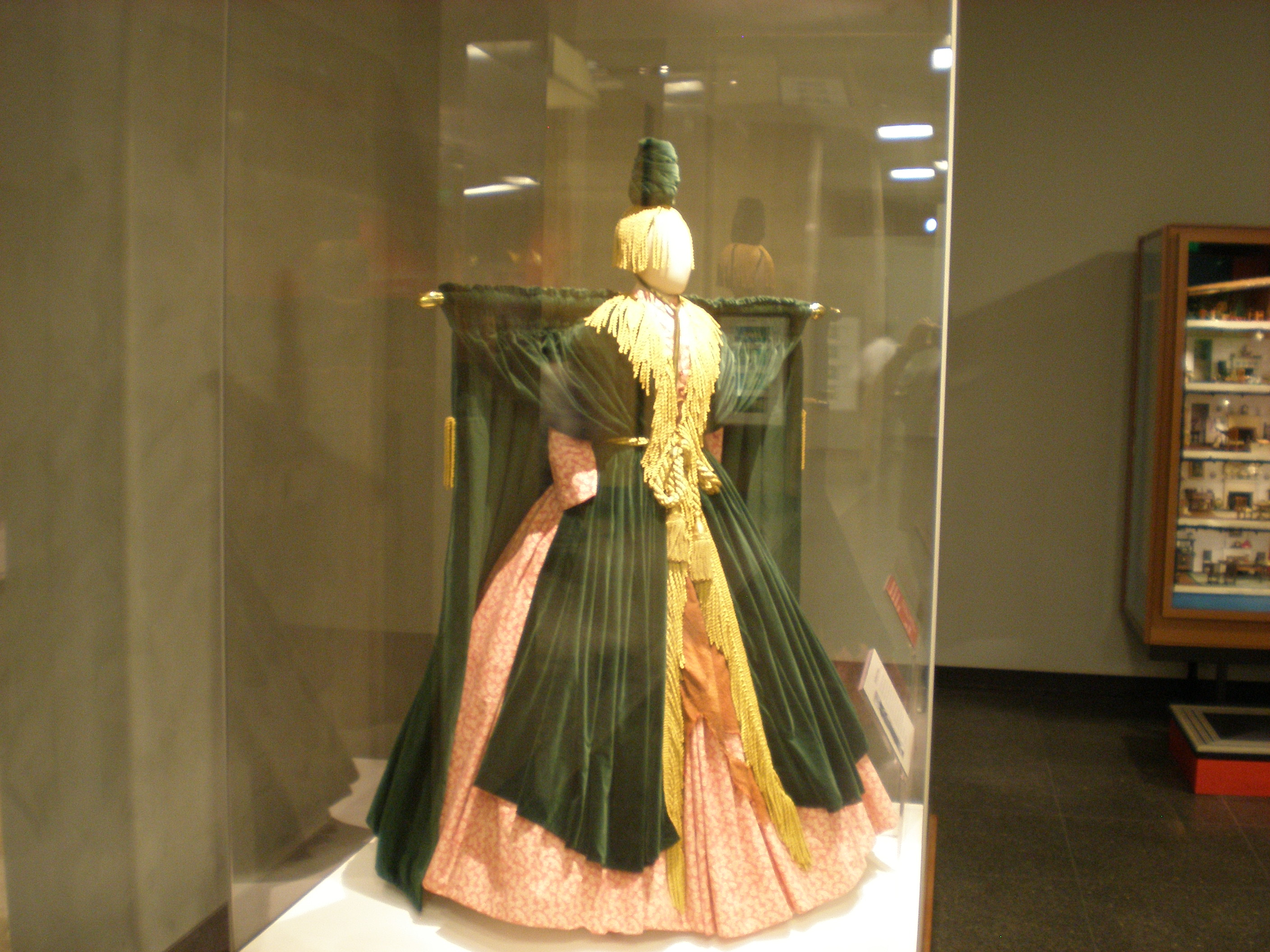 The famed Curtain Dress, designed by Bob Mackie and worn by Carol Burnett during the "Went With the Wind!" sketch on "The Carol Burnett Show". This sketch was originally broadcast on CBS November 13, 1976. The Curtain Dress is on display at the Smithsonian Institution's National Museum of American History in Washington, DC.